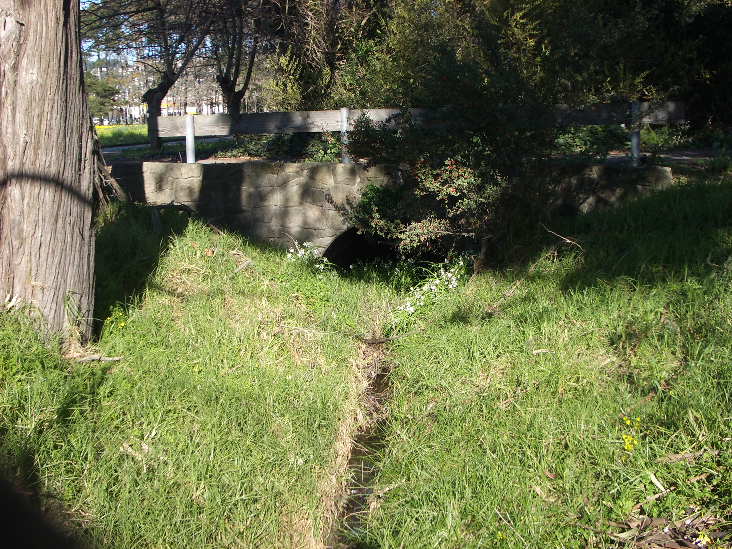 Daylighted portion of lower Marin Creek (Village Creek) in the Gill Tract, UC Village area of Albany, East Bay, California.